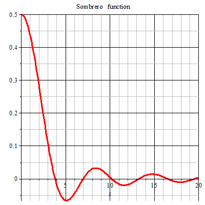 Sombrero function 2D